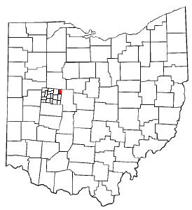 Adapted from Wikipedia's OH county maps. Created by SwissCelt.